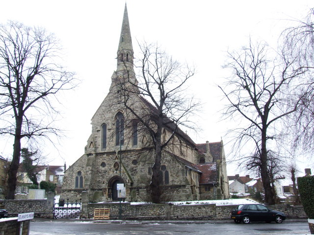 New Testament Church of God, Vicarage Road, Strood, Kent, seen from west-southwest. Built in 1869 as St Mary's parish church.